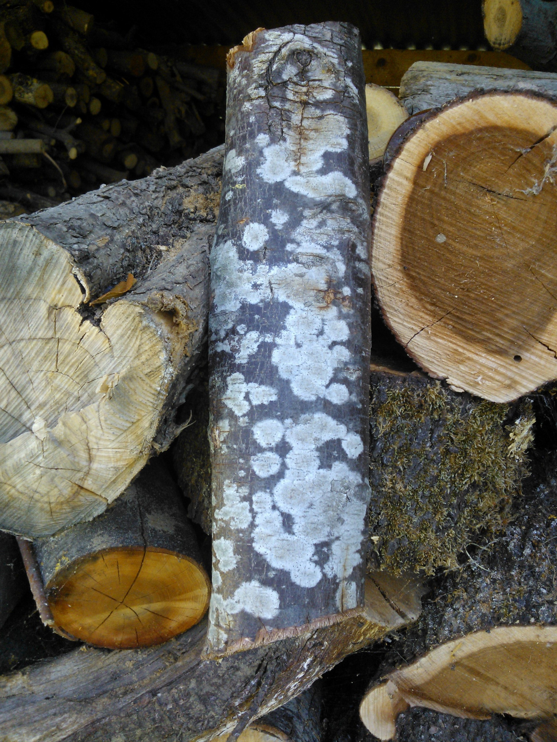 Wood of Ostrya carpinifolia. Italian mountains.